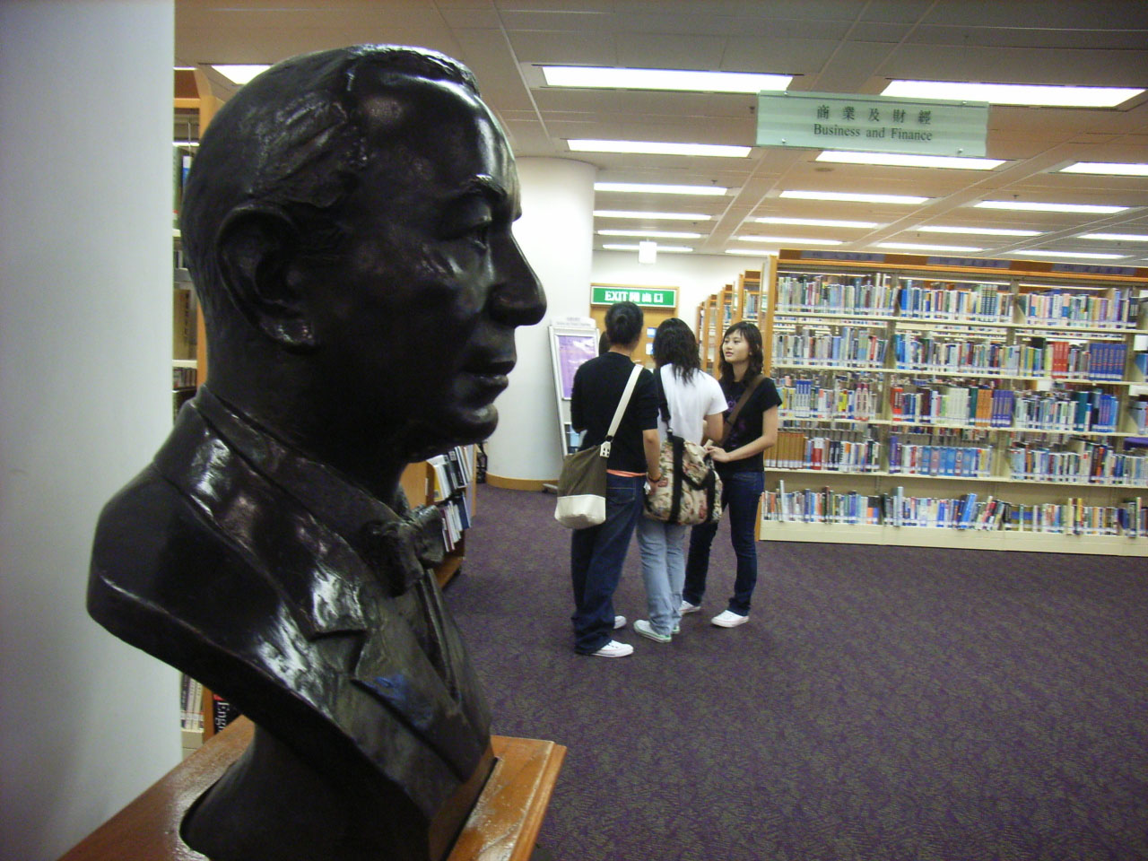 Abert Kotewall statue and collection library locate in Hong Kong Central Library. The statue was located in Hong Kong Central Library.